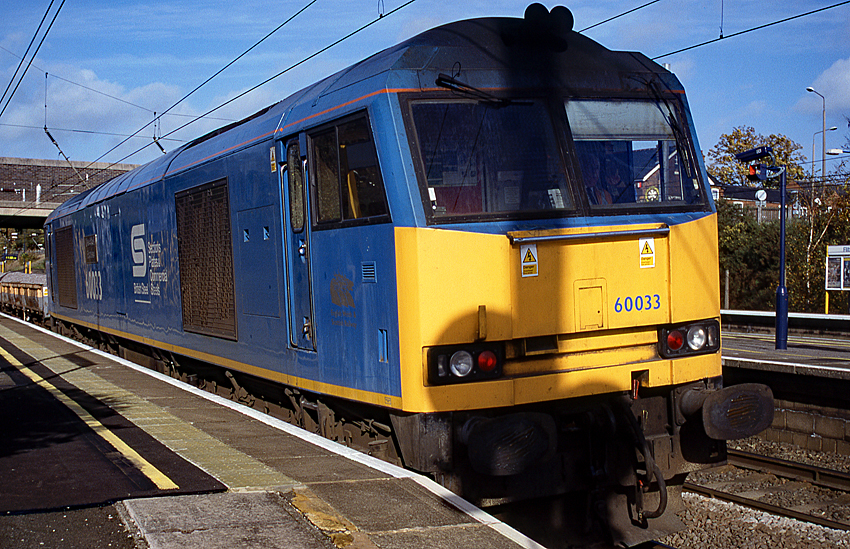 60033 Tees Steel Express in British Steel blue on ballast train at Flitwick in 1999. Former name Anthony Ashley Cooper. Scanned from a Fujichrome 35mm slide.